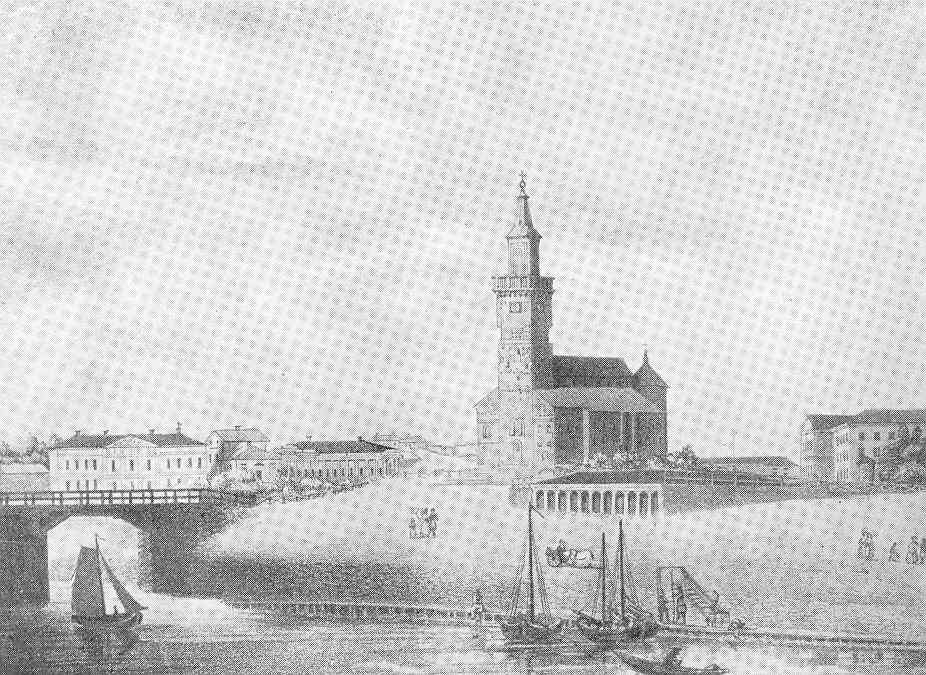 Lithograph of Turku Cathedral and town's setting in the 1840s.